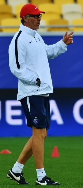 Laurent Blanc